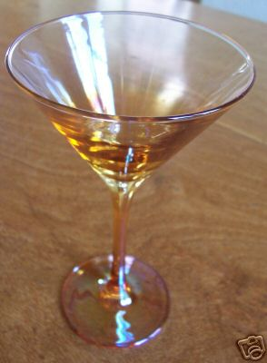 Empty cocktail glass. No copyright.